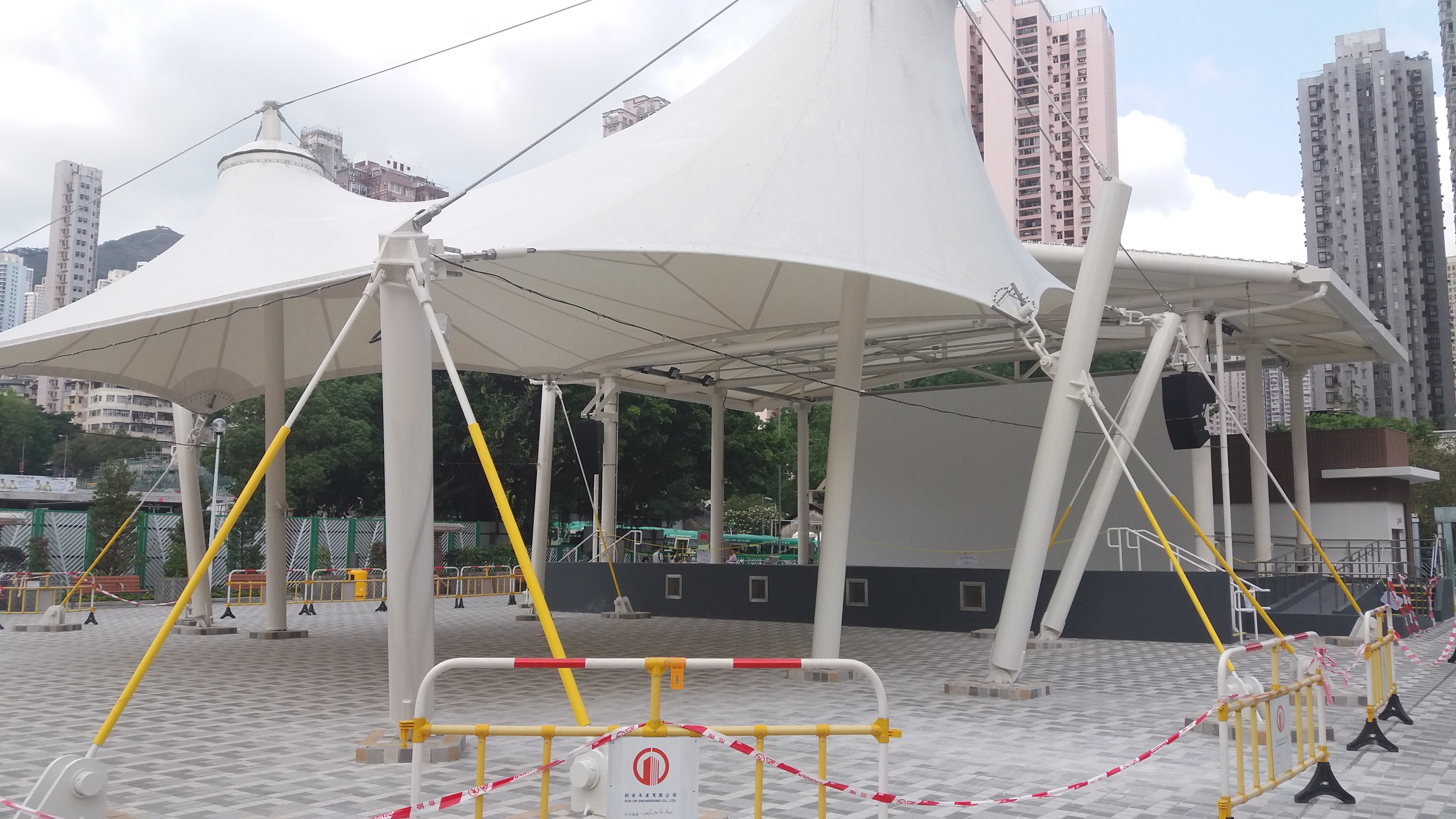 Wong Tai Sin Square (May 2017)